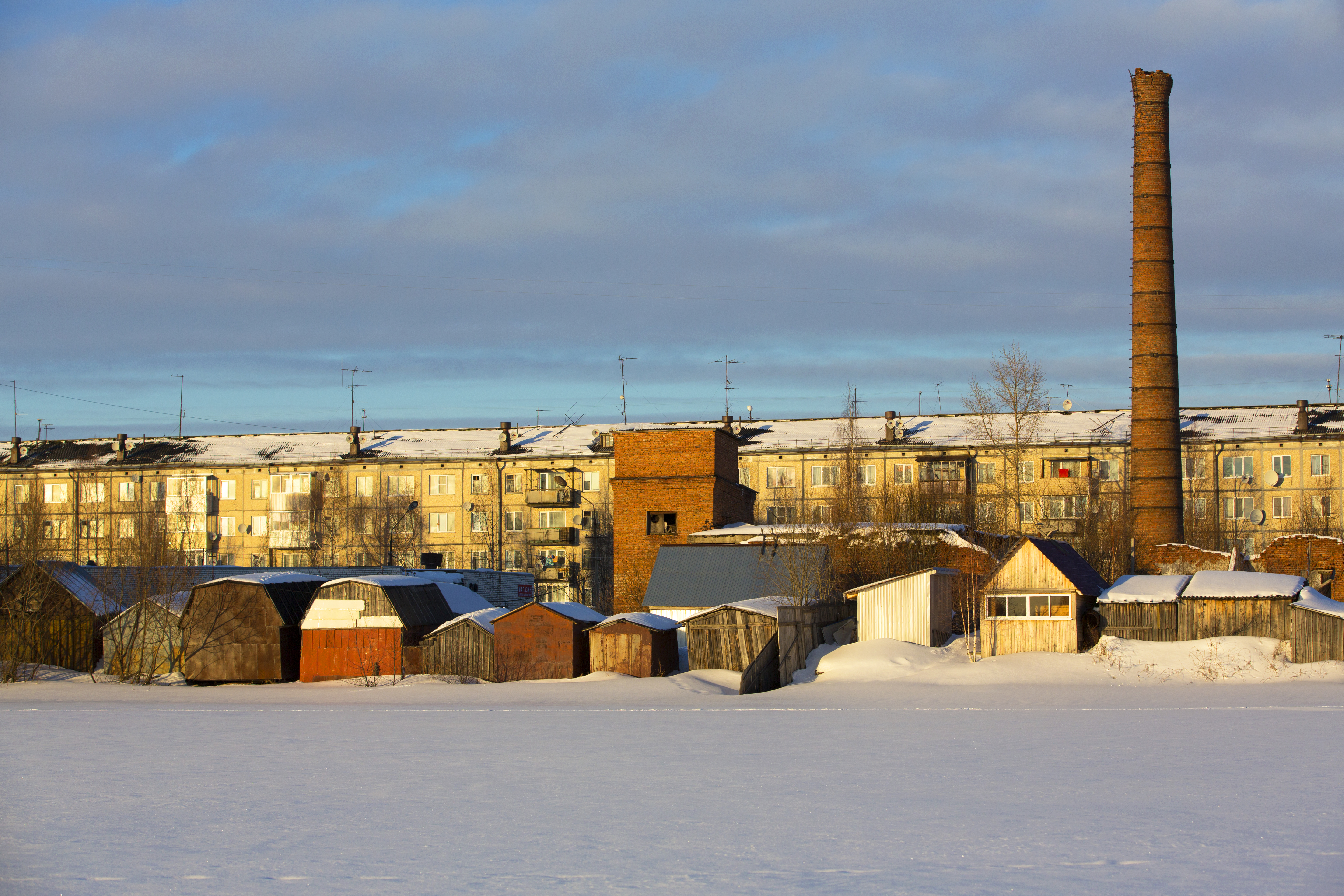 Buildings for household equipment in Tsiglomen, Arkhangelsk region.